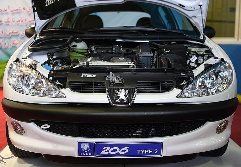 Peugeot 206 Iranian TU3